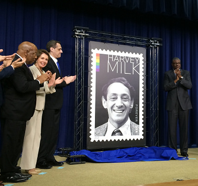 Congresswoman Pelosi joins Stuart Milk, nephew of Harvey Milk and President of the Harvey Milk Foundation, along with Congressmen John Lewis, and Deputy Postmaster General Ronald Stroman at a ceremony unveiling the Postal Service’s Harvey Milk Forever Stamp – honoring the life and legacy of Harvey Milk, a San Francisco hero who dedicated his life to the fundamental American value of equality.